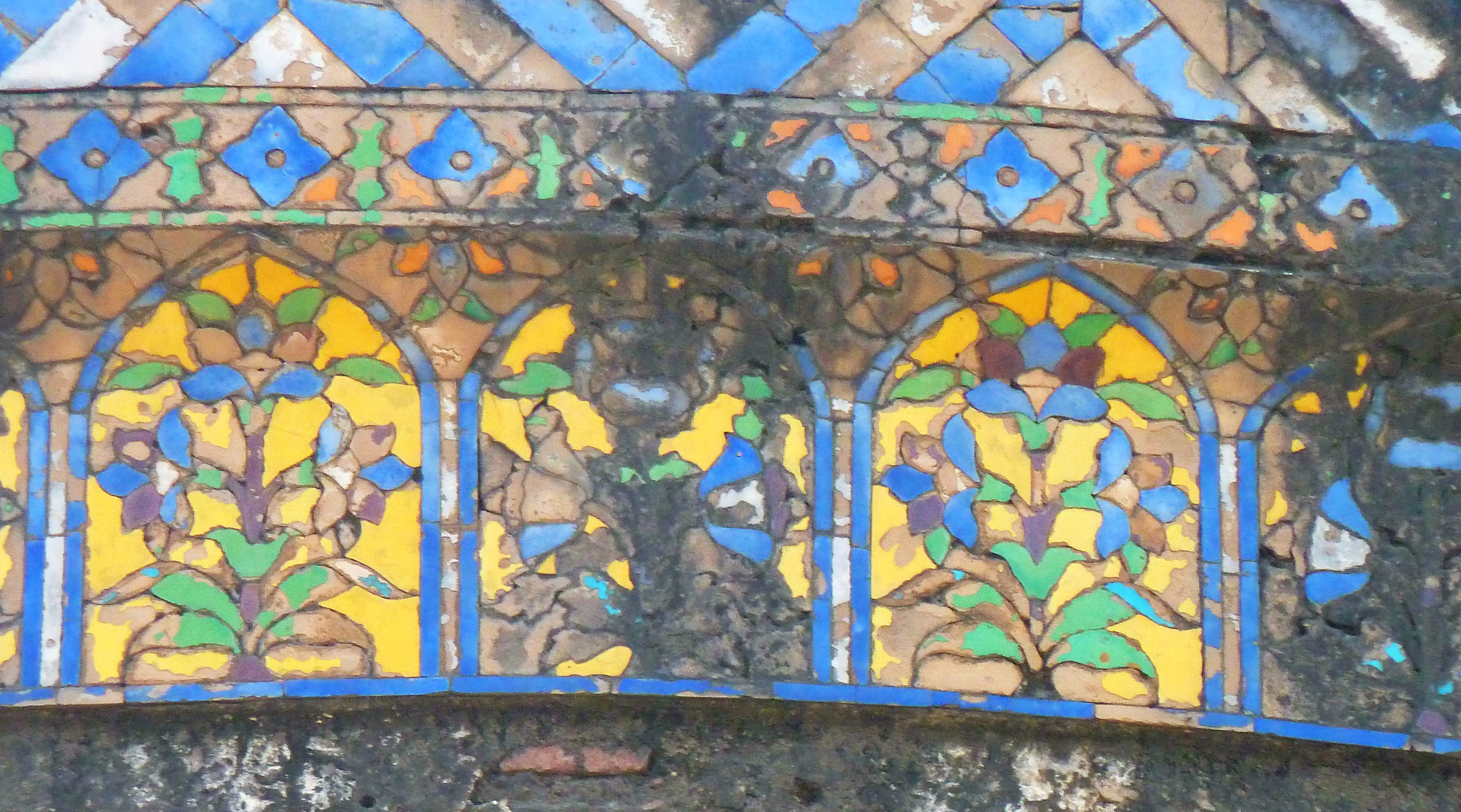 Detail of intricate mosaic tile-work on the dome of Buddhu Ka Awa (Buddhu's Tomb), Lahore This is a photo of a monument in Pakistan identified as the PB-45